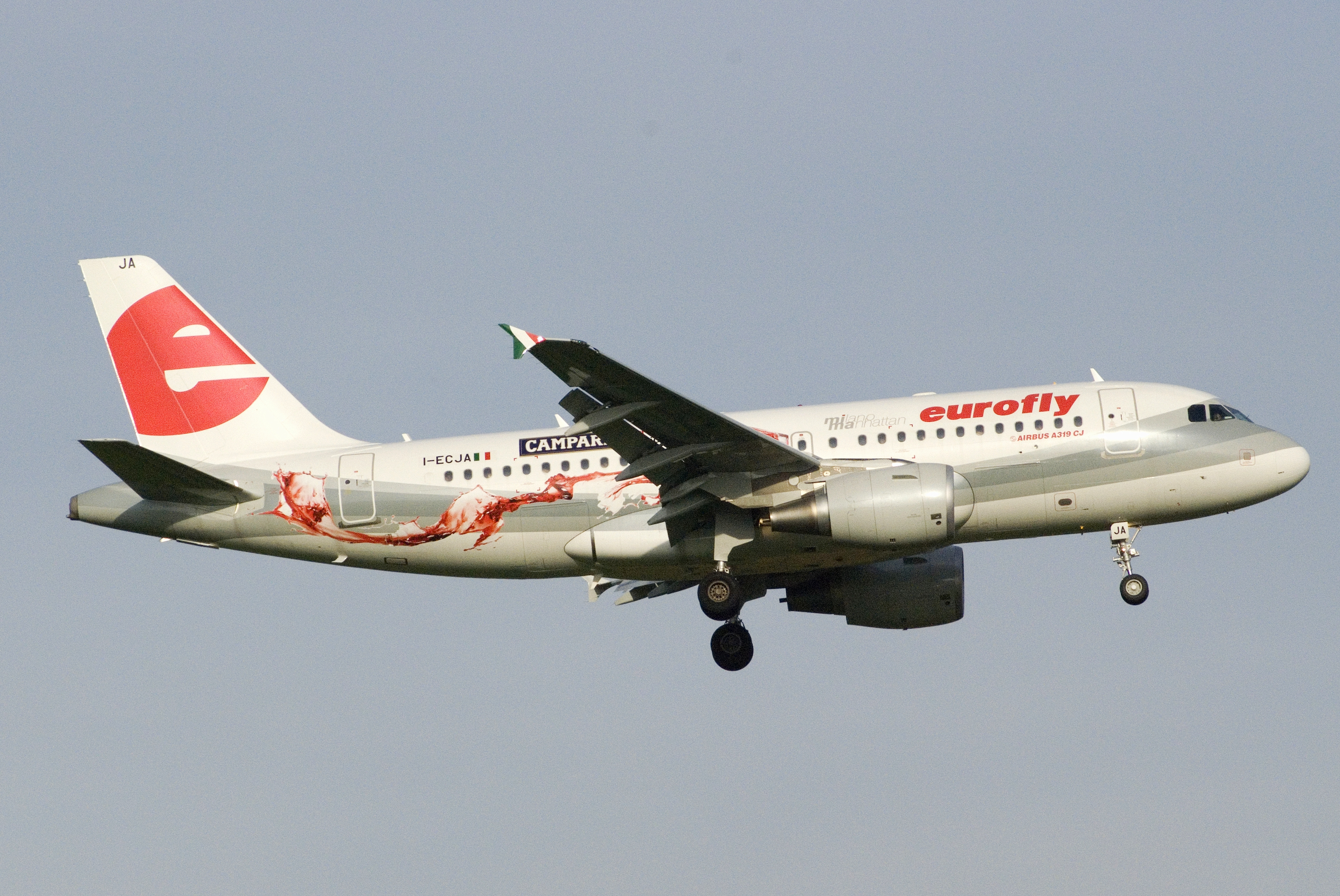 Eurofly Airbus A319-115 (CX); I-ECJA@ZRH;04.11.2006/437ac